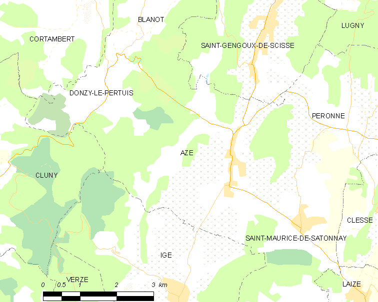 Map of French municipality